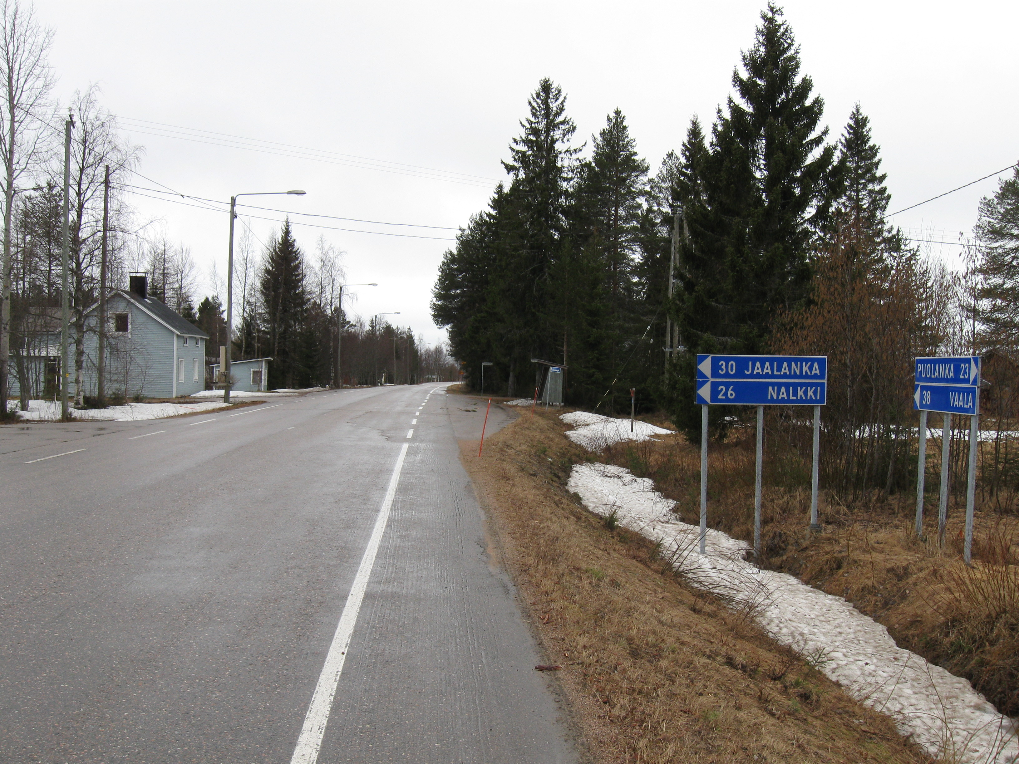 The village of Puokio in Puolanka, Finland, at the crossing or roads 800 and 8832, along the former towards Vaala.